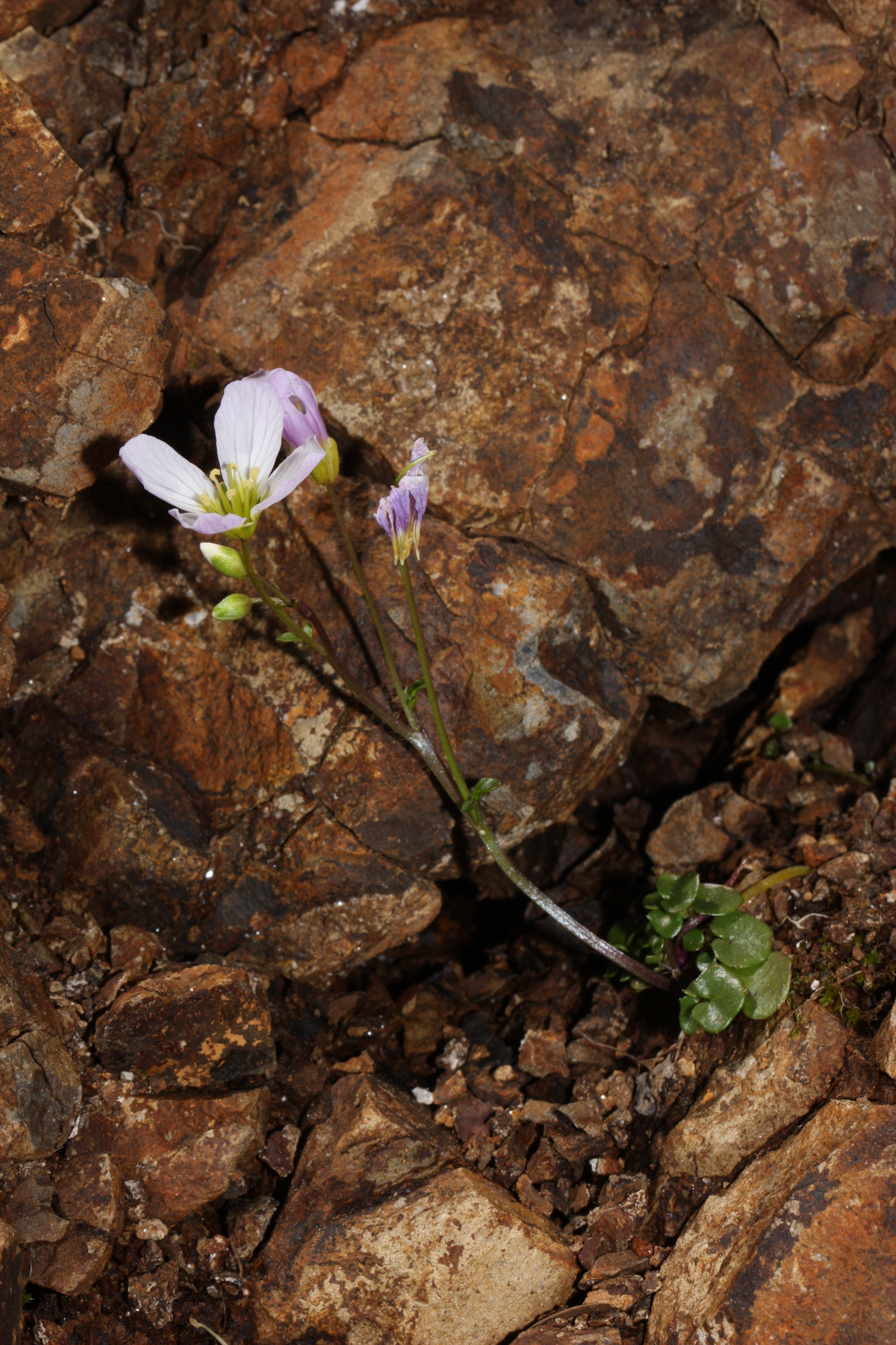 Saddle Mountain Bittercress Viewpoint location: Saddle Mountain Trail, Saddle Mountain State Natural Area Viewpoint elevation: 786 meter (2577 ft) Location source: Garmin GPSmap 60CSx Location Datum: WGS84